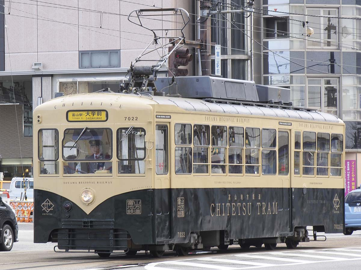 Toyama Chihō Railway's No.7022 of type 7000 tramcar. This was refurbished as "Retro Tram" in 2014 with special livery and wooden interior. The picture was takn at Toyama station.